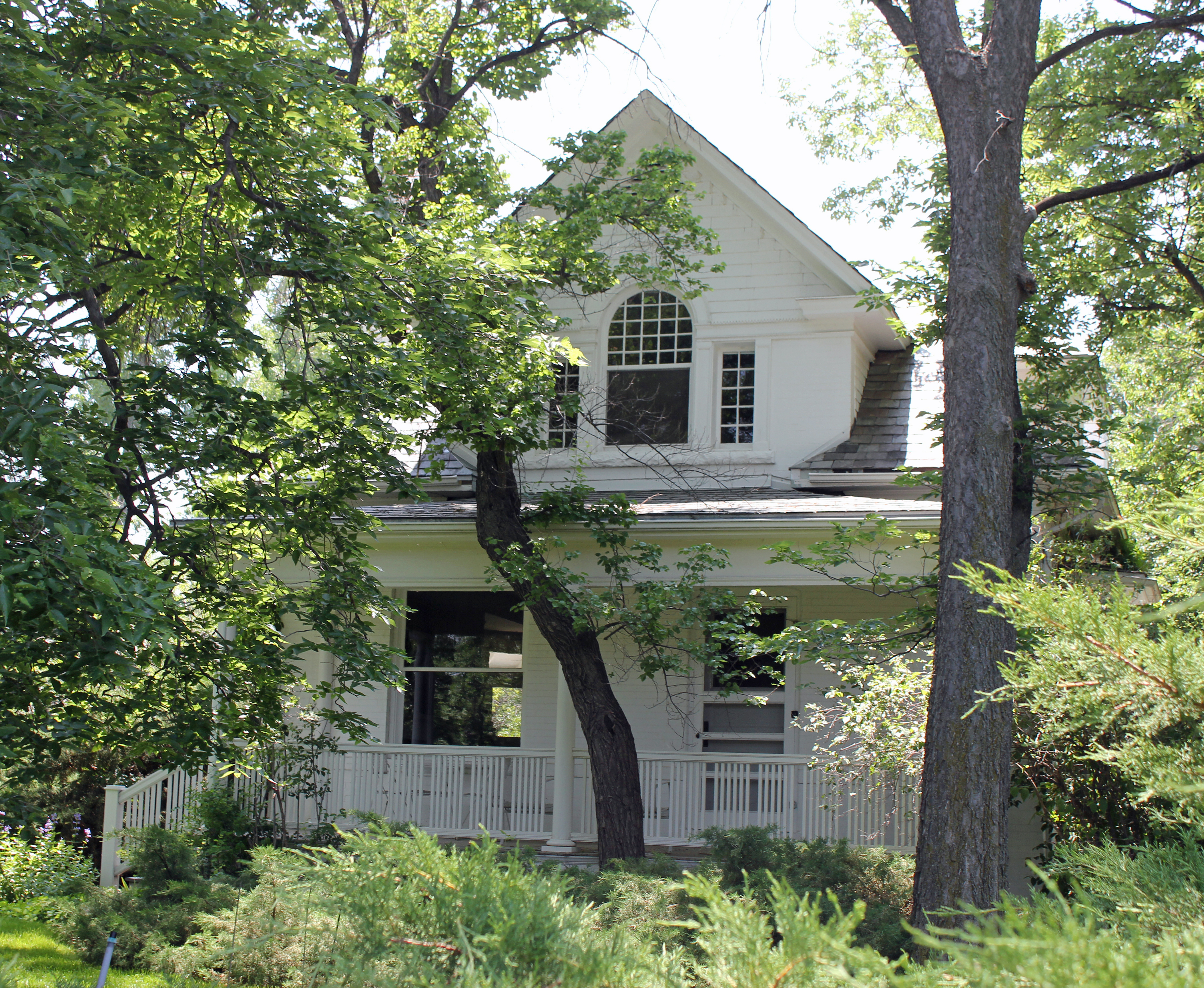 Hopkins Farm, located at 4400 East Quincy Avenue in Cherry Hills Village, Colorado. The farm is listed on the National Register of Historic Places.